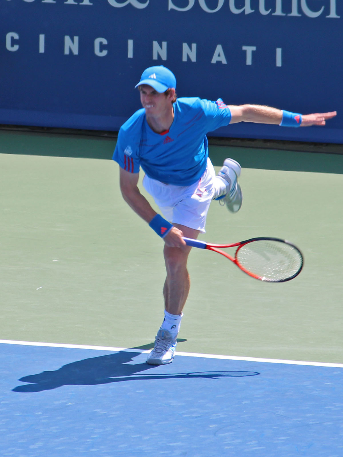 Andy Murray practicing a serve